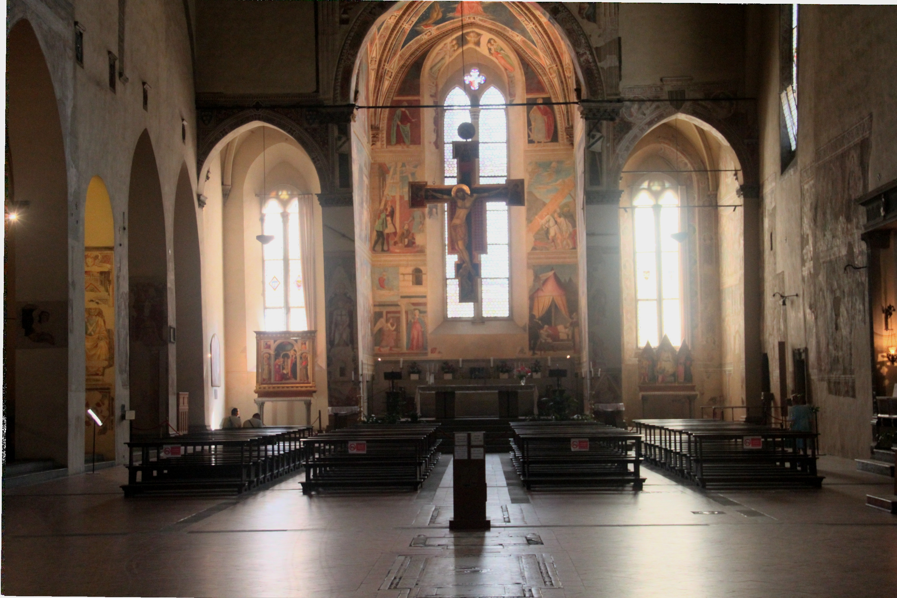 San Francisco church in Arezzo, Italy